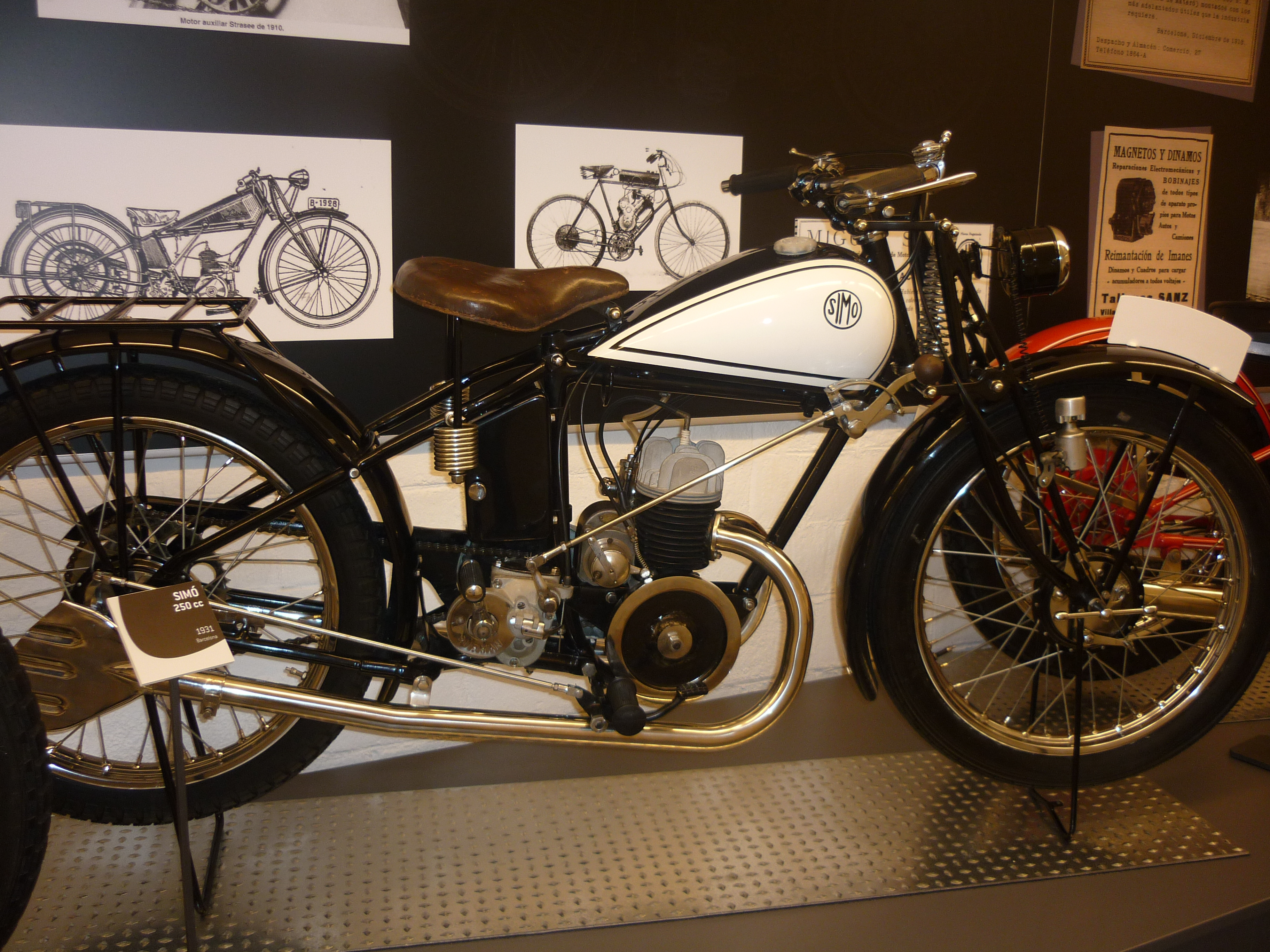 Simó 250cc (1931). Museu de la Moto de Barcelona (Catalonia).